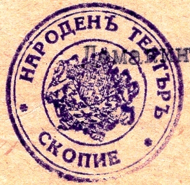 The seal of the People's Theatre of Skopje, during the Bulgarian occupation, 1930s. This media file is produced by Wikipedian in Residence in Category:Wikipedian in Residence at DARM in 2017.